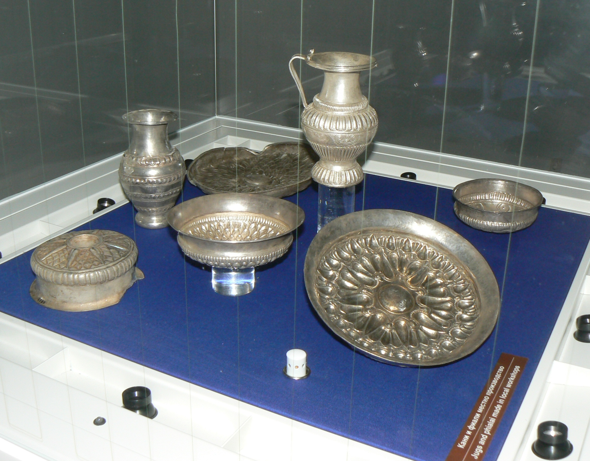 Vessels from the Rogozen treasure, exhibited in the Regional history museum and art gallery of Vratsa, Bulgaria